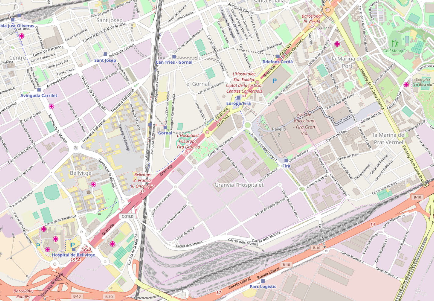 Map of Granvia l’Hospitalet district in L’Hospitalet de Llobregat.